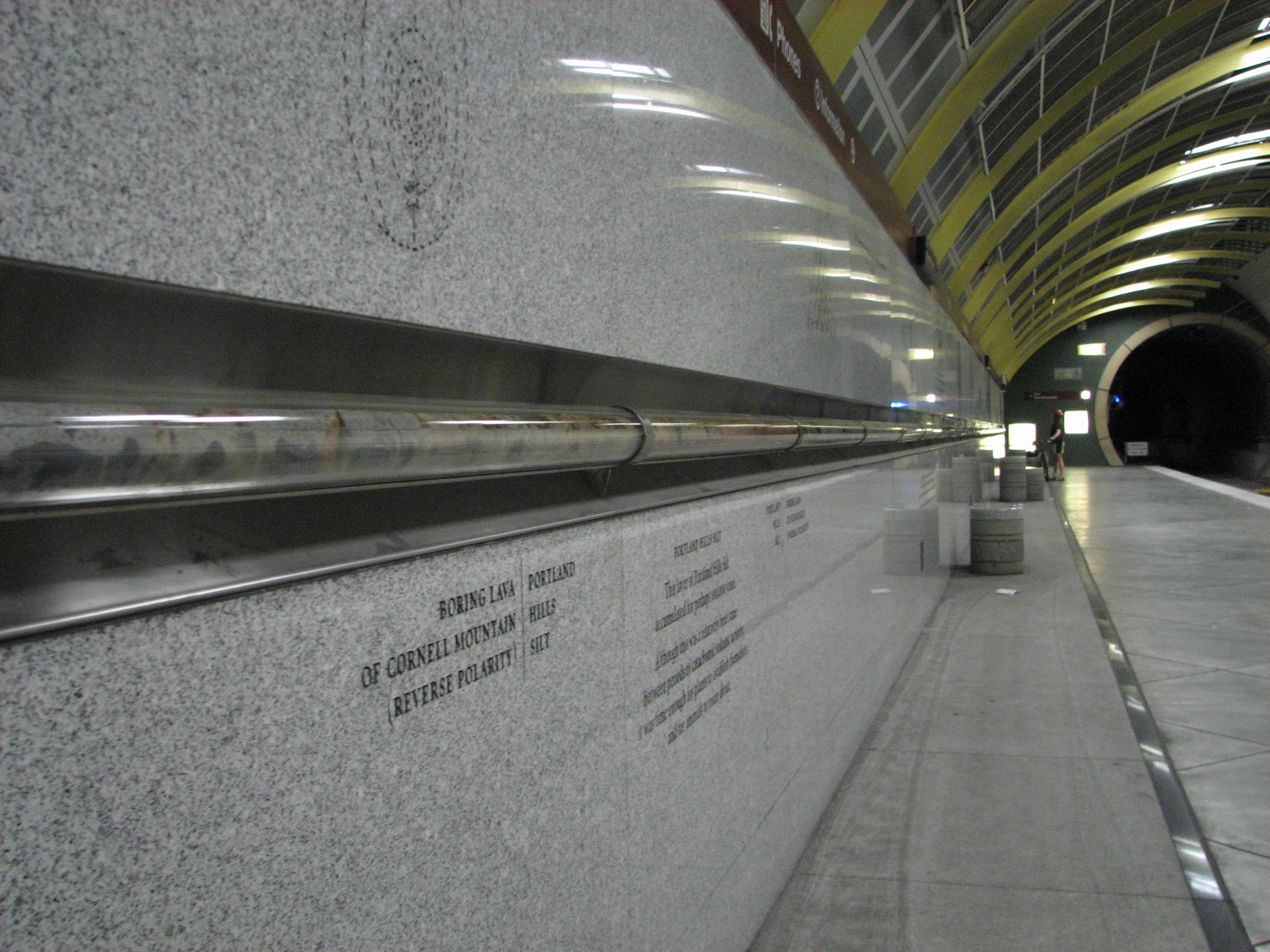 Core sample and geologic timeline permanently displayed along the wall of the eastbound platform of the Washington Park station of the MAX light rail system, in Portland, Oregon.